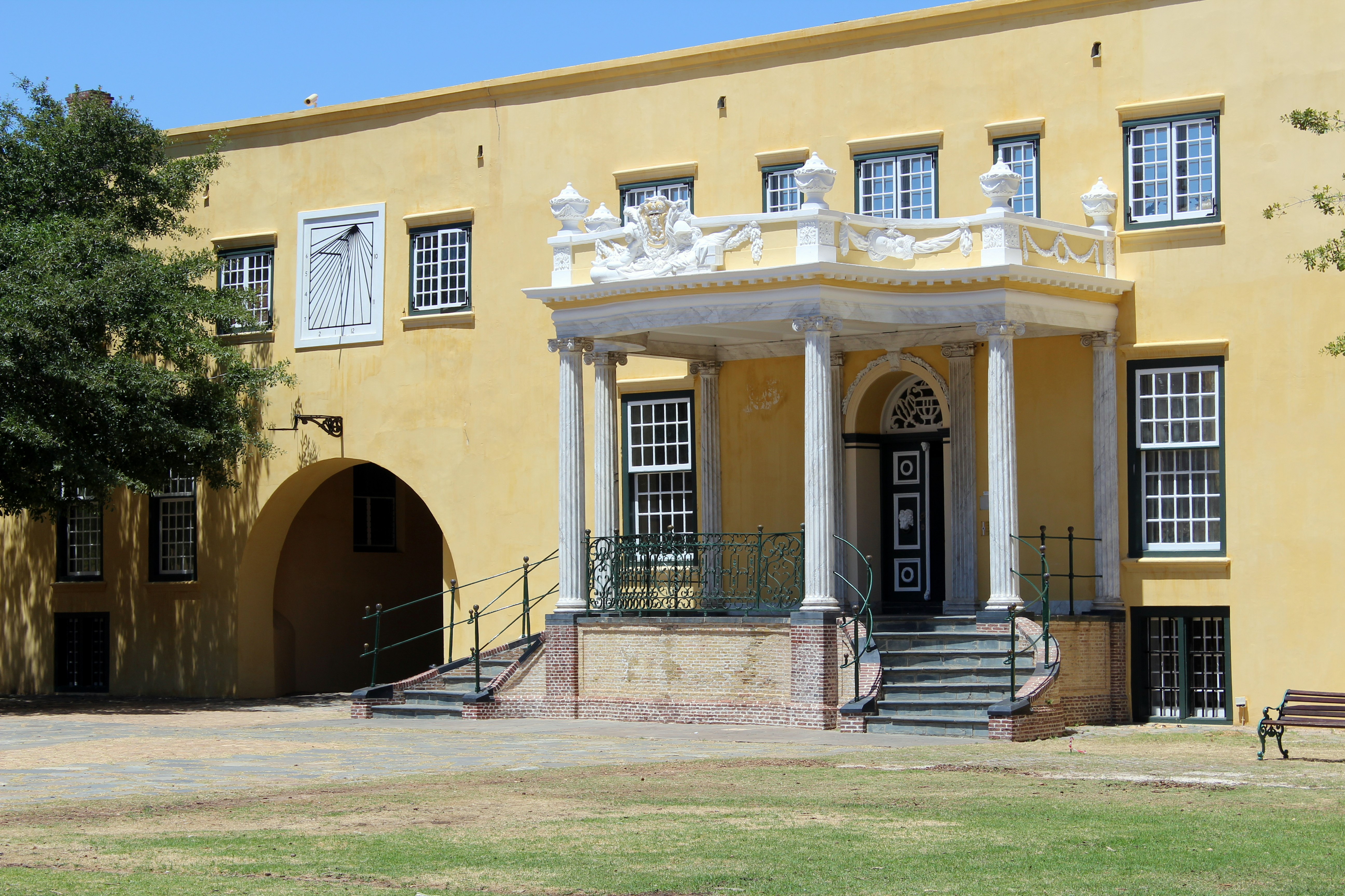 The Kat Balcony at the Castle of Good Hope, entrance to the Governor's quarters. It was originally built in 1695 but remodelled in Baroque style in 1785. Proclamations were traditionally read from the balcony. The vertical sundial on the wall is numbered clockwise showing that the structure is in the Southern Hemisphere. This media shows a South African Protected Site with SAHRA file reference 9/2/018/0056See also: External entry in South African Heritage Resource Agency database.